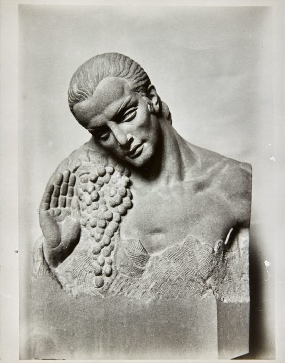 Dionysus (1930s), a relief sculpture by the Australian sculptor Dora Ohlfsen (1869–1948), who lived and worked in Rome for decades. This photograph was taken by her and sent to her niece, Dora Stanford. Stanford gave it to the Art Gallery of New South Wales, which published it on its website a few years ago. It was not published in Ohlfsen's lifetime. The sculpture itself is on Ohlfsen's grave in Rome.